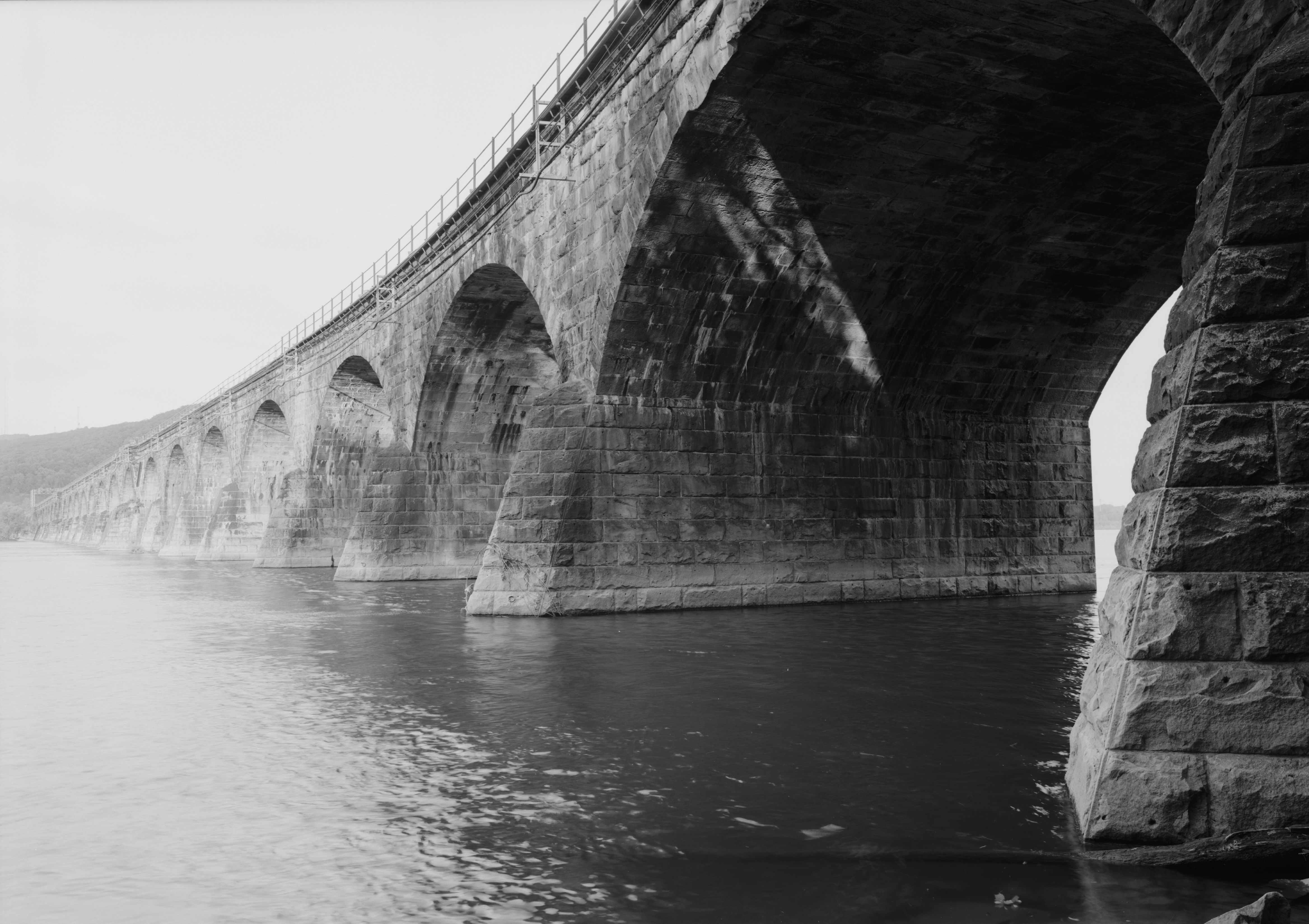 Pennsylvania Railroad, Rockville Bridge, Spanning Susquehanna River, North of I-81 Bridge, Rockville, Dauphin County, PA